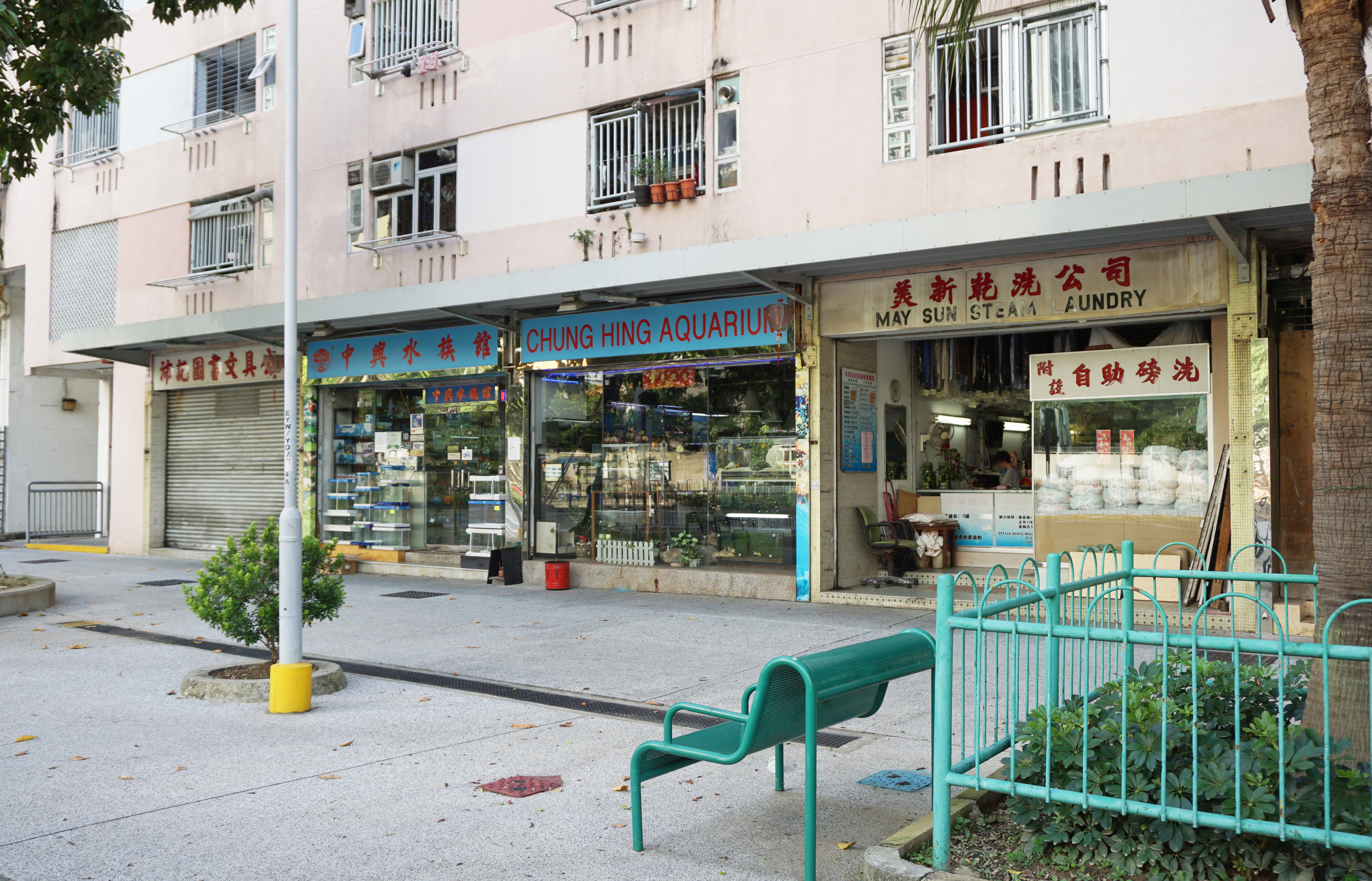 Yue Wan Estate in Chai Wan, Hong Kong.